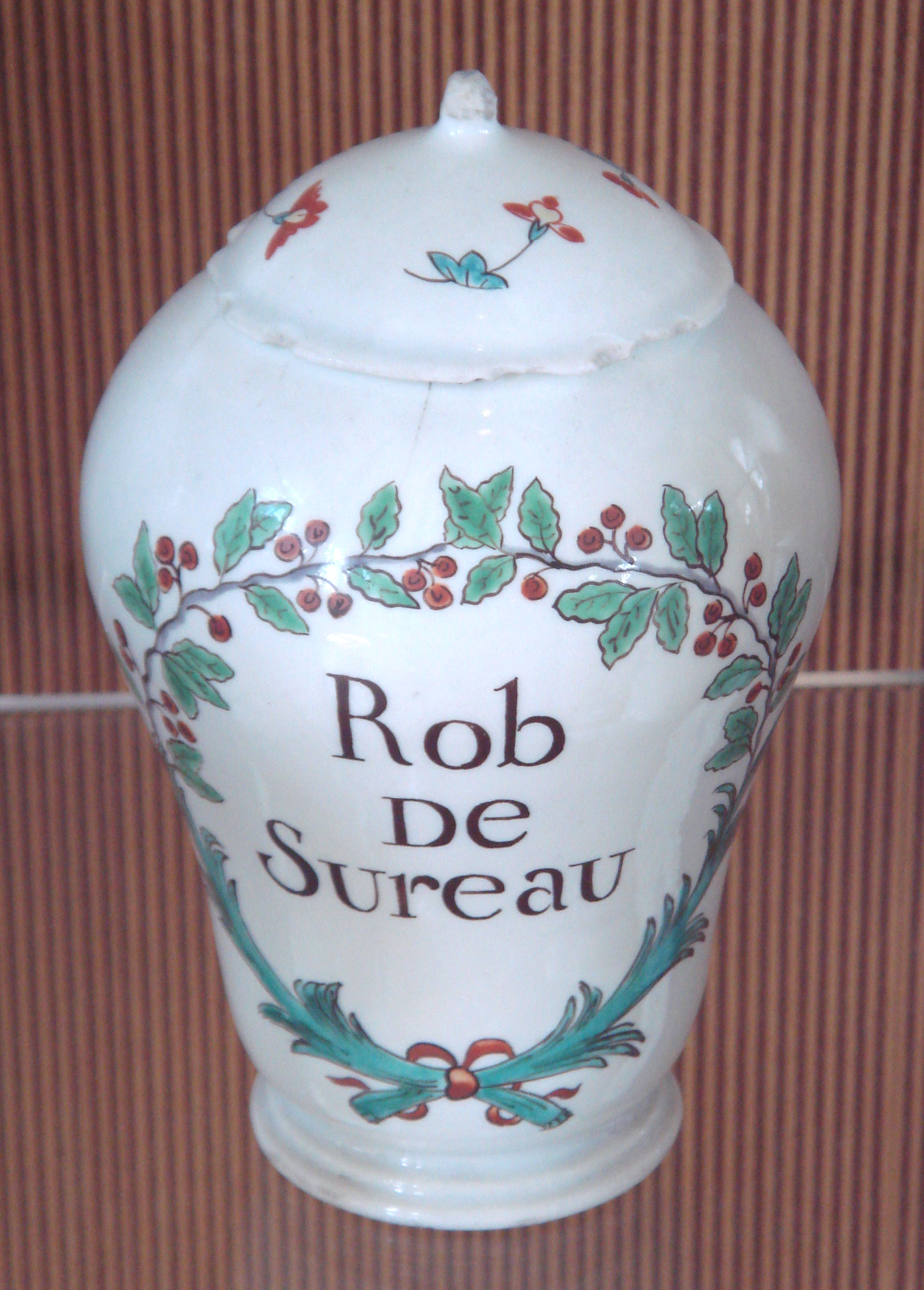 Chantilly pharmacological jar with inscription "Rob de sureau", with Kakiemon designs, 1725-1751